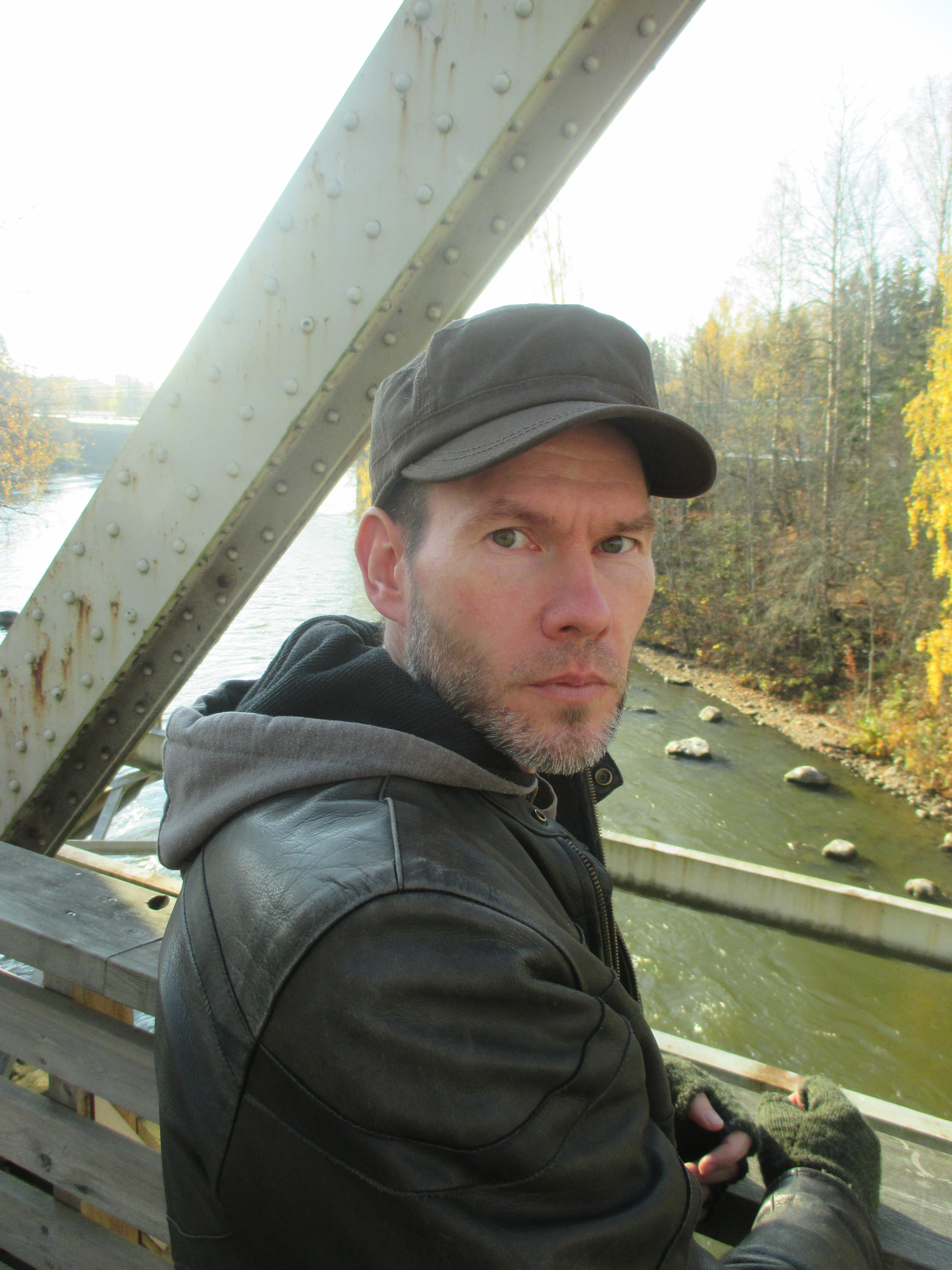 A Finnish writer and a poet Tony Laine.